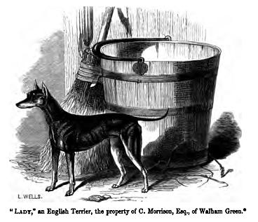 old English Terrier